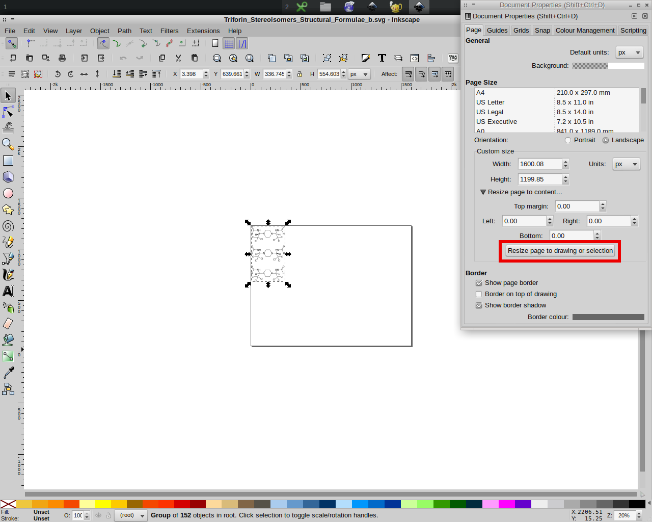 Viewport in Inkscape